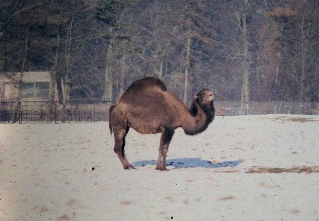 Bactrian Camel, Whipsnade In thick dark winter coat, and faking it to look like it only has one hump!